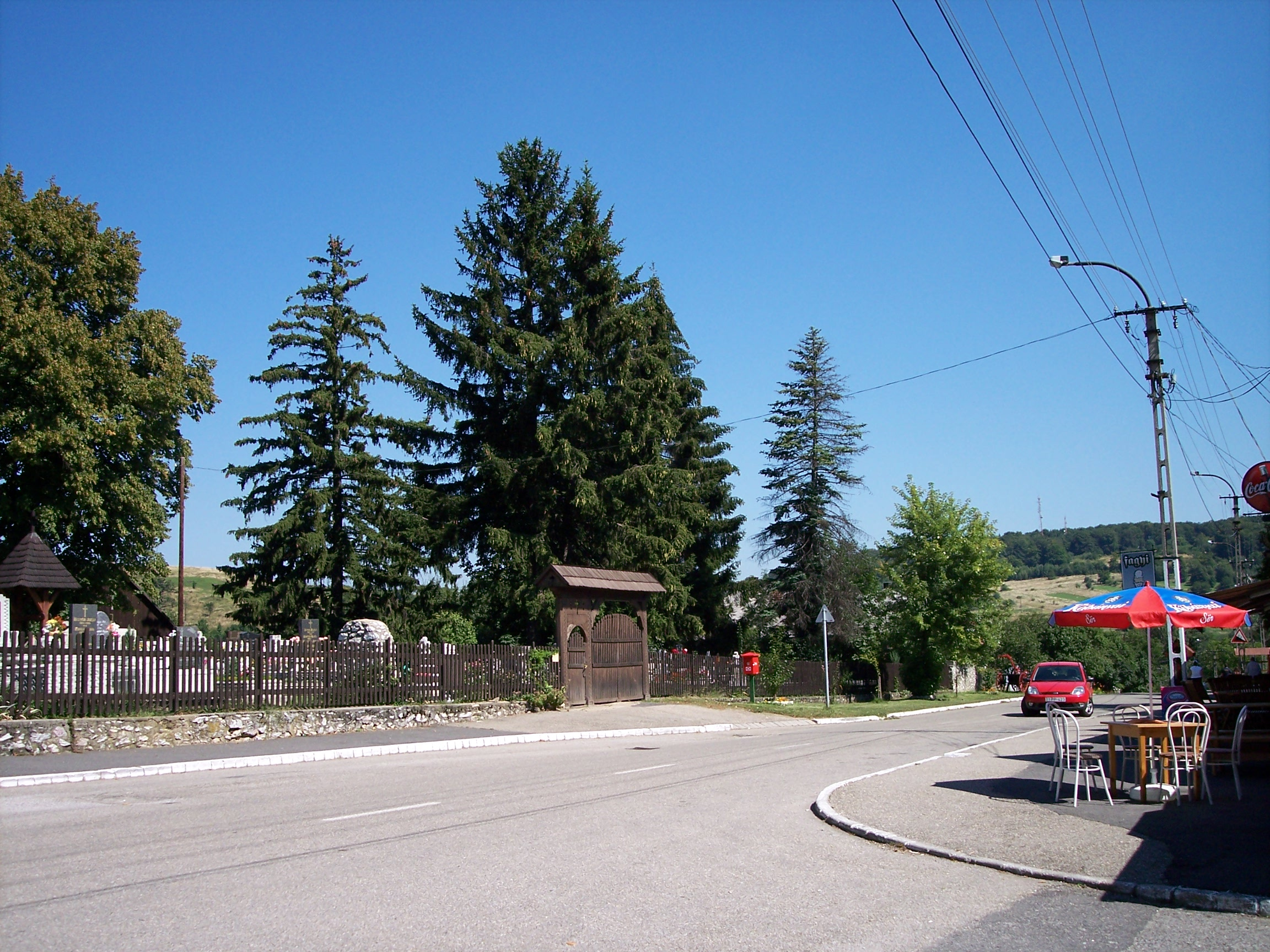 Bükkszentkereszt, Hungary